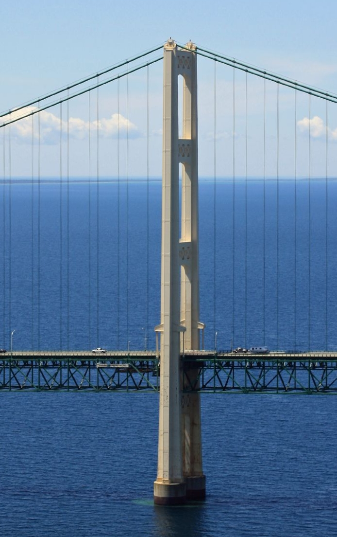 The Mackinac Bridge spans the Straits of Mackinac to connect the non-contiguous Upper and Lower peninsulas of the U.S. state of Michigan